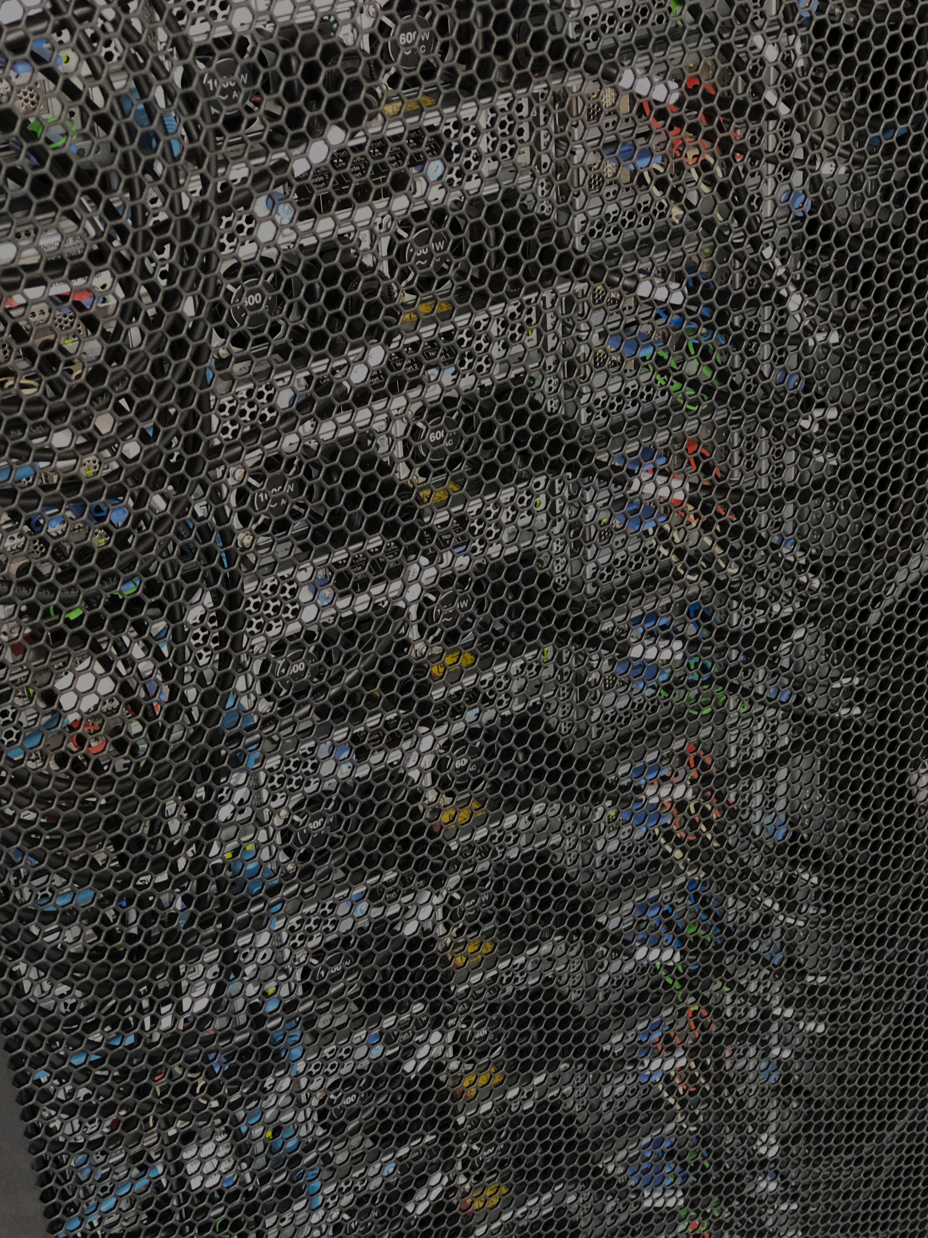 Magerit Supercomputer managed by Supercomputing and Visualization Center of Madrid (CeSViMa), Technical University of Madrid (UPM). This photo is the third version of supercomputer.